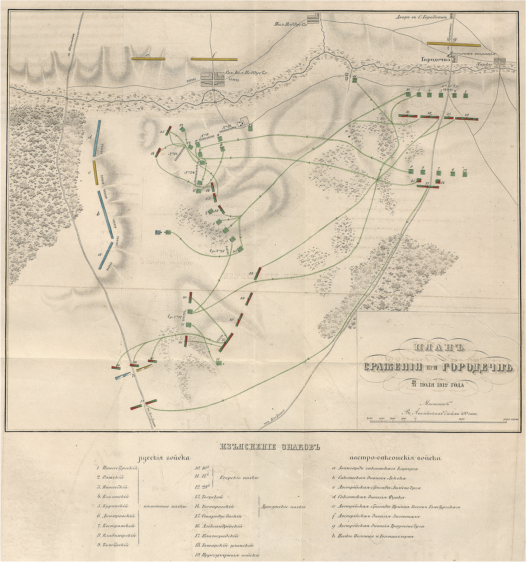 Battle of Gorodechno, 19 july 1812 (map)